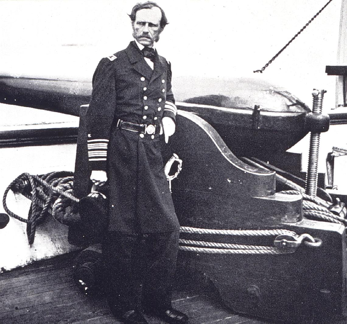 Rear Admiral John A. Dahlgren. Served with Coast Survey in 1830's.